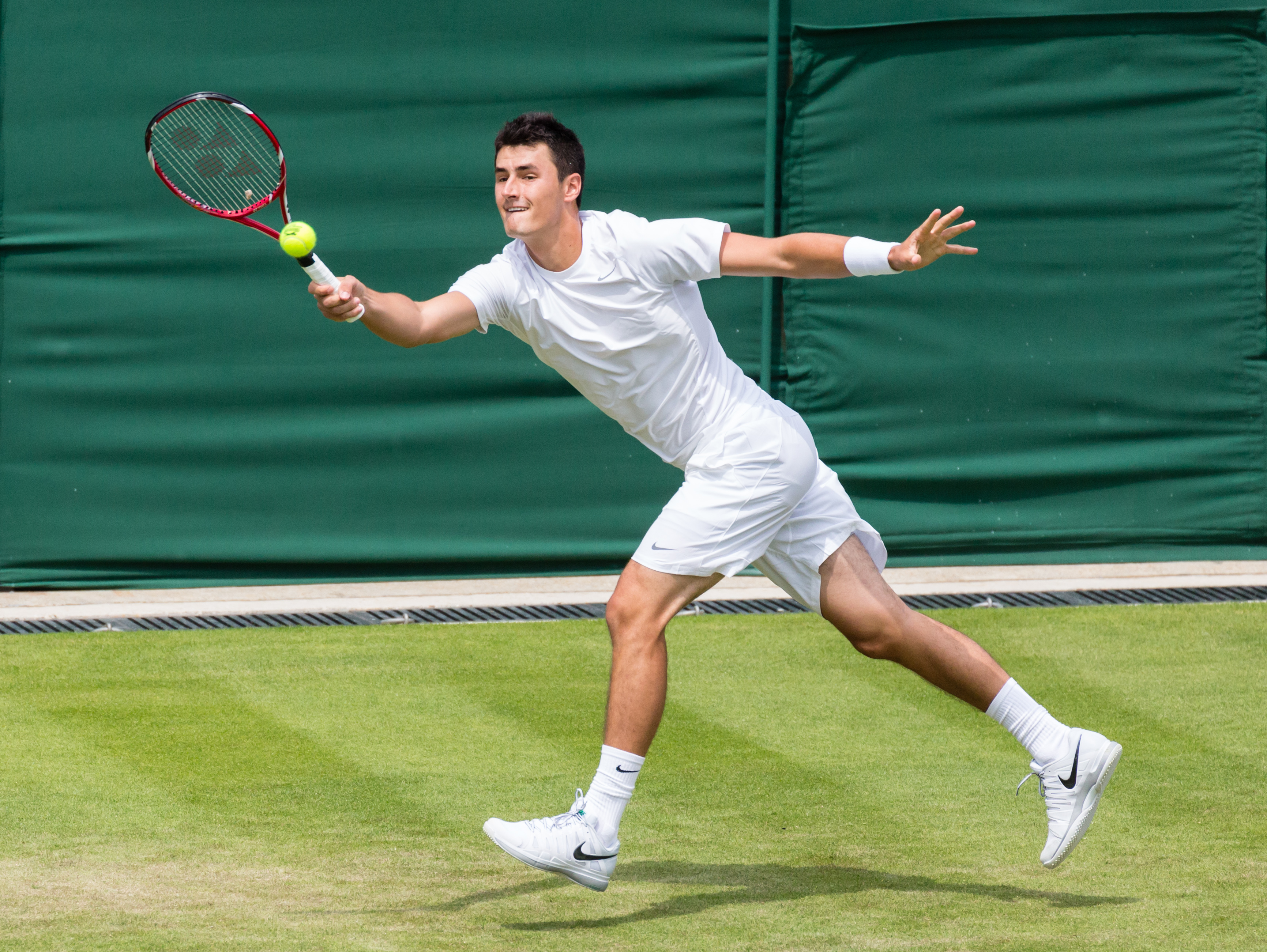 Bernard Tomic in the first round of the 2013 Wimbledon Championships.